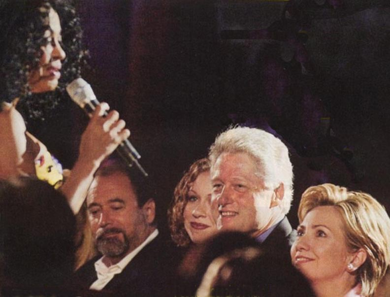 Photo taken by scuzzler, owned by him, August 12, 2000, Hillary Clinton, Bill Clinton, Peter F. Paul, Diana Ross, scandal